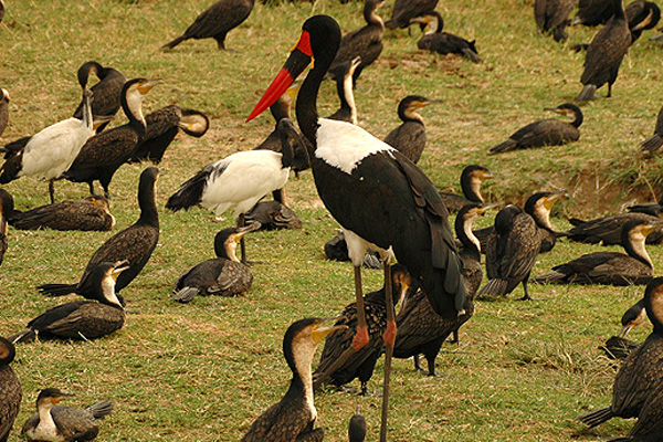 Uganda Saddle-billed Stork (Ephippiorhynchus senegalensis) Kazinga Channel QE NP Dec 2005